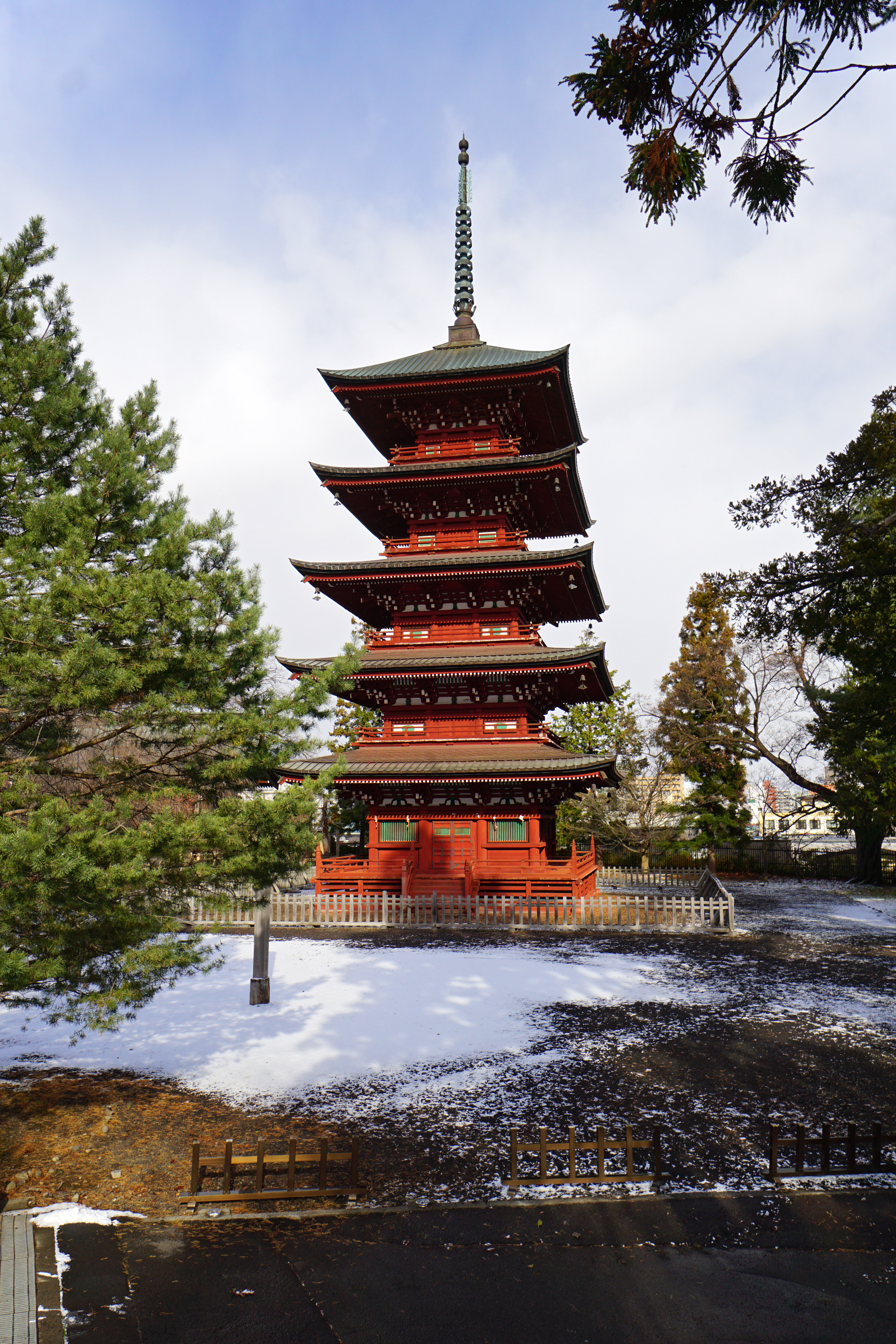 Saishō-in in Hirosaki, Aomori prefecture, Japan